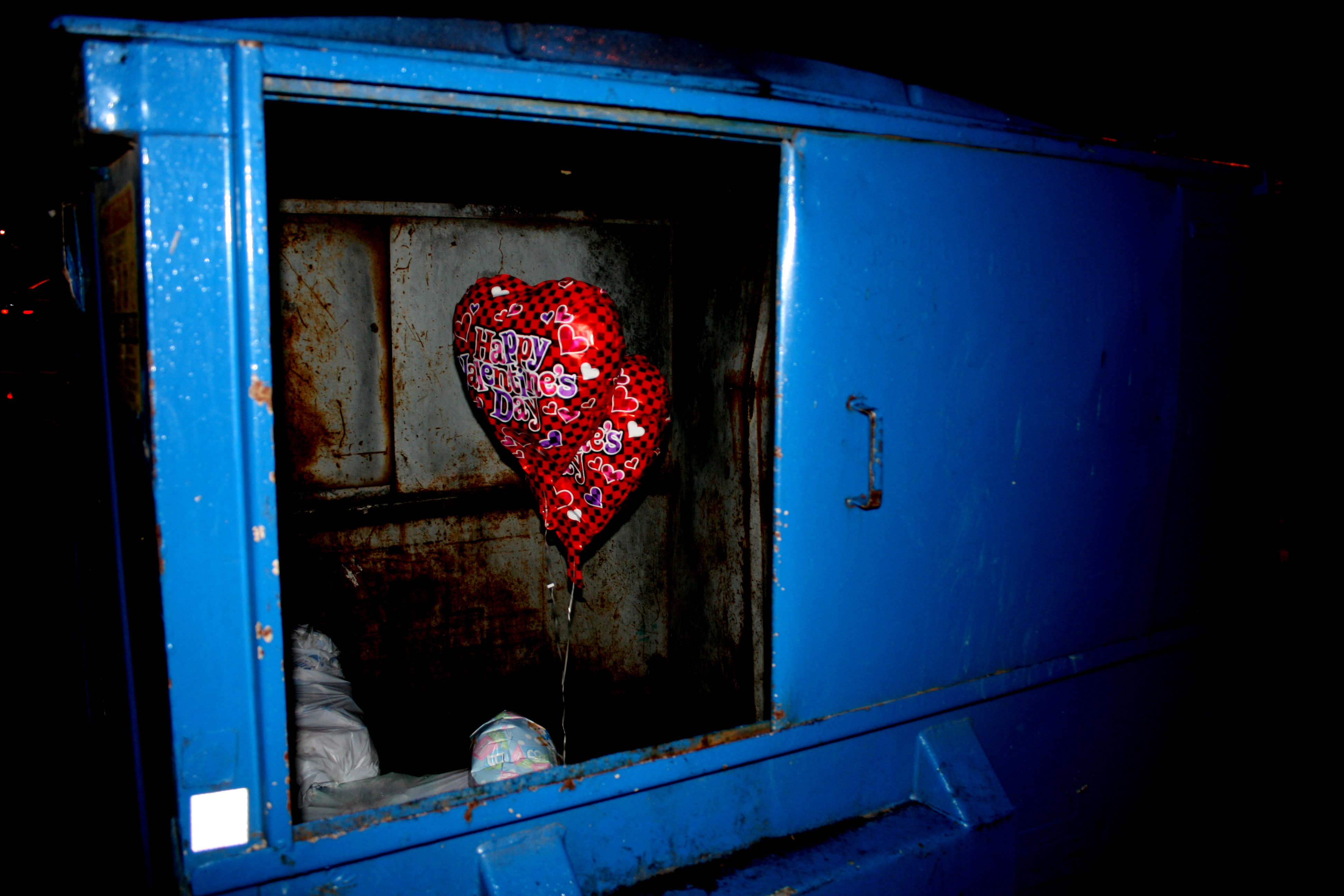 Helium-filled "Happy Valentine's Day" balloons, shaped like hearts, still attached to a wrapped gift inside a dumpster in Memphis.